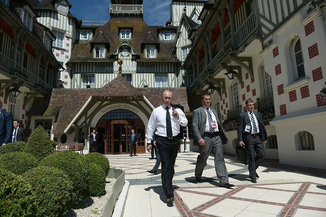 Vladimir Putin at celebrating the 70th anniversary of D-Day (2014-06-06)